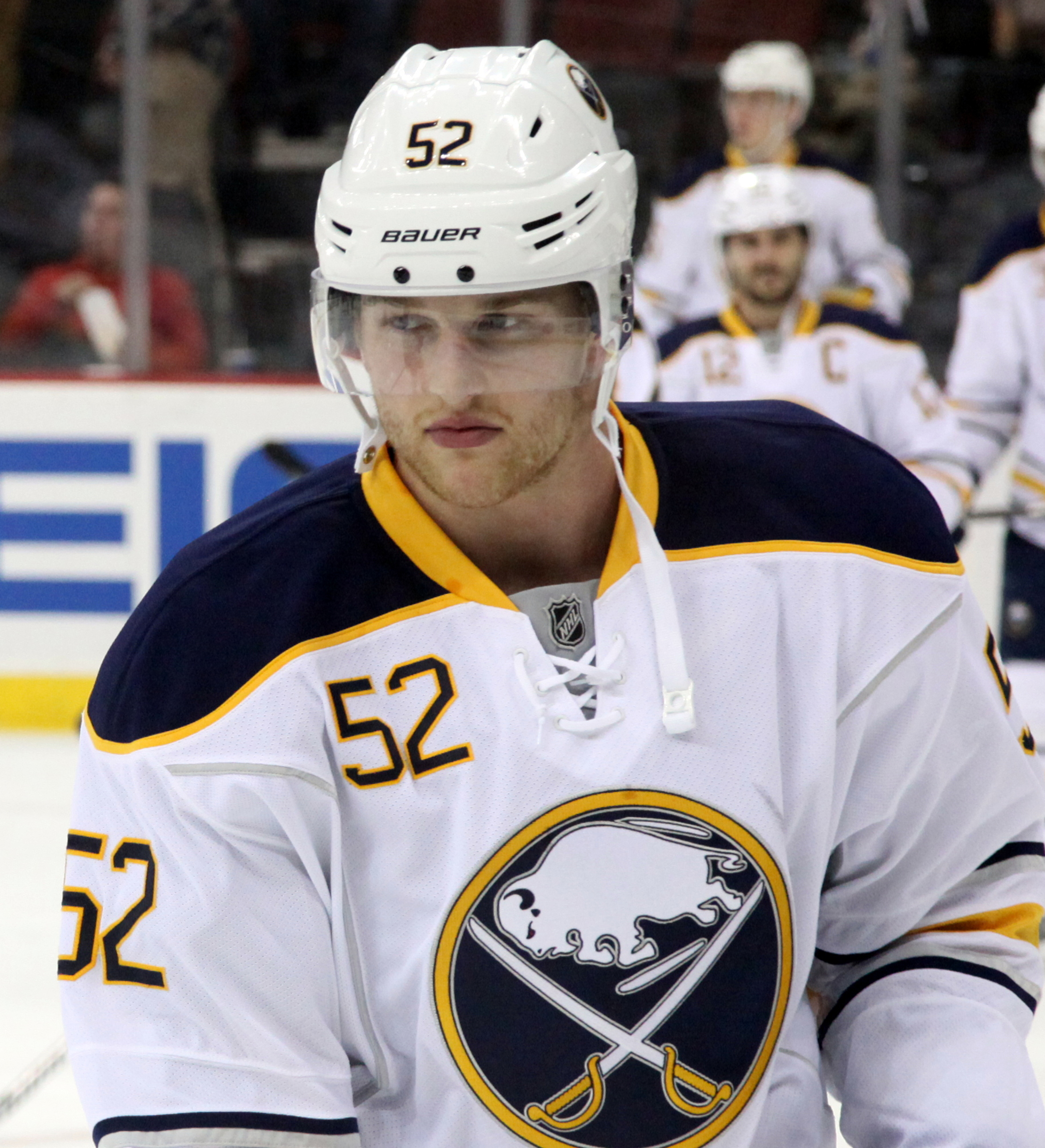 Hudson Fasching in April 2016.